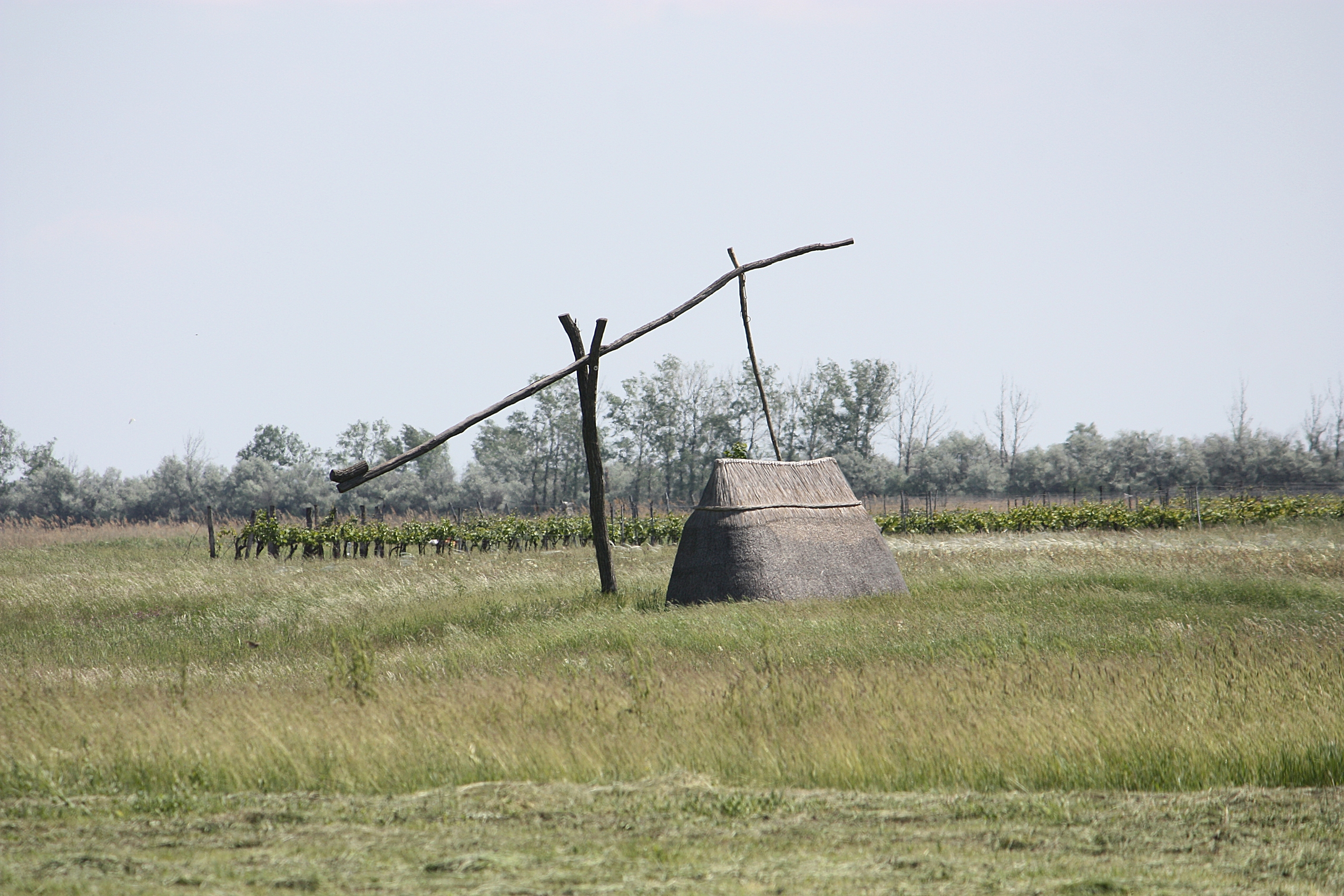 Apetlon, draw well at the "Lange Lacke"